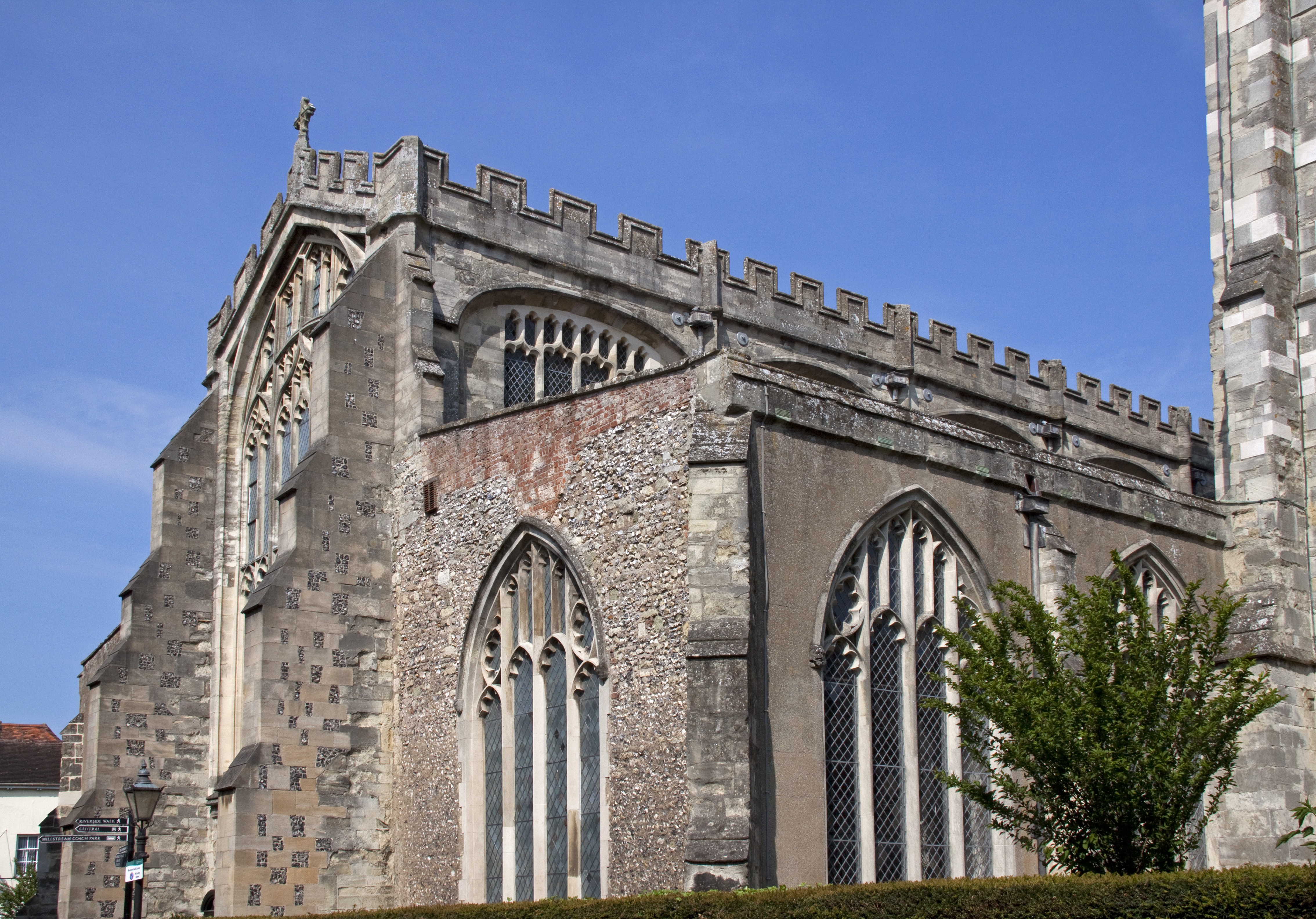 St Thomas' Church Salisbury